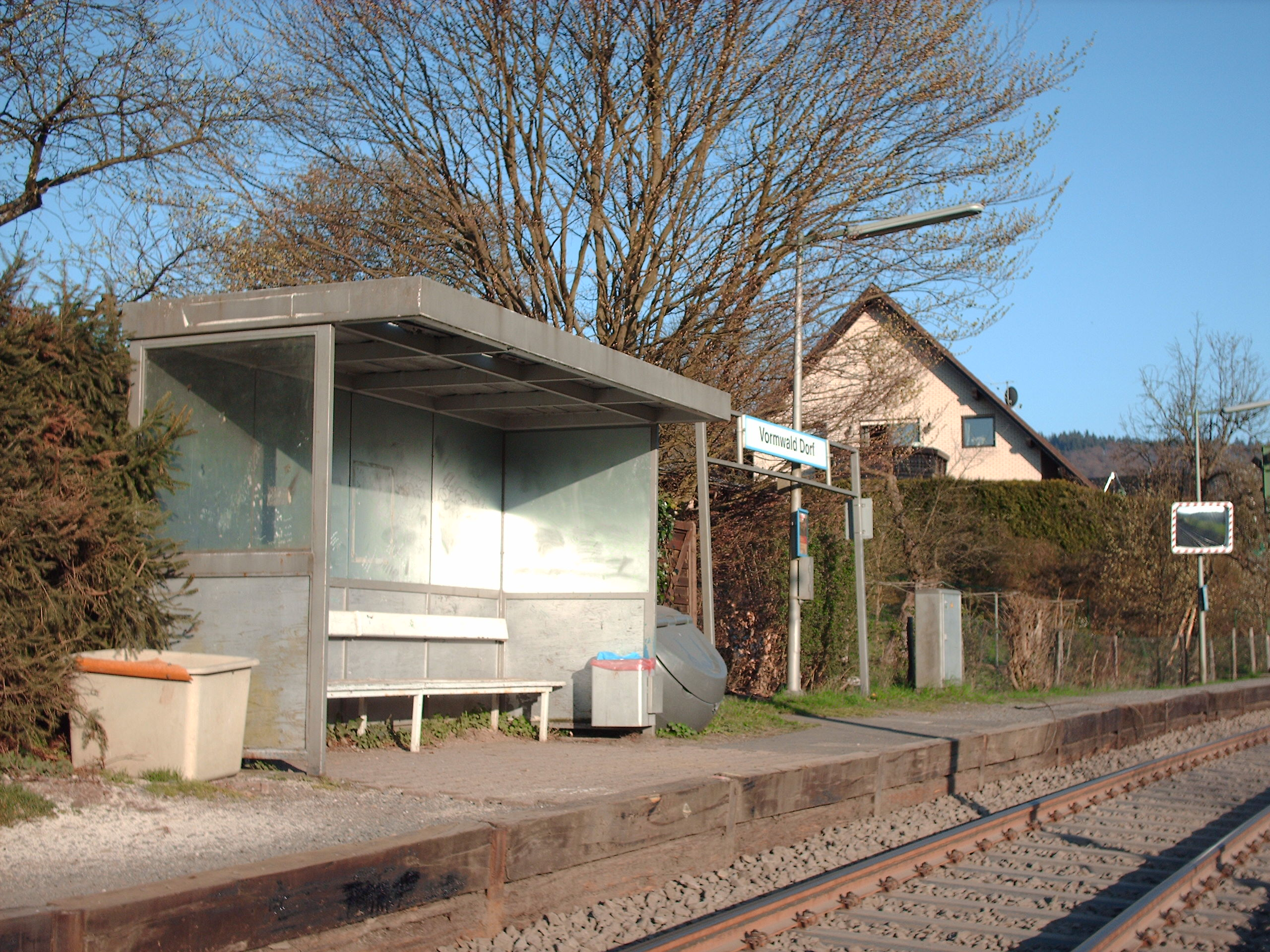 Vormwald Dorf station, Hilchenbach, Germany check usage